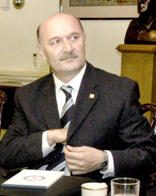 Georgian President Misha Saakashvili (right) meets with Secretary of Defense Donald H. Rumsfeld (foreground) in the Pentagon on Aug. 4, 2004. Saakashvili and Rumsfeld are meeting to discuss a broad range of security issues of interest to both nations. Among those joining Saakashvili for the talks are Georgian Ambassador Levan Mikeladze (center) and Defense Attaché Col. Archil Tsintsadze.